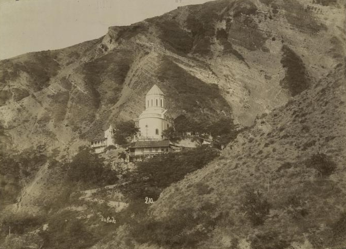 Tiflis. Church of St. David